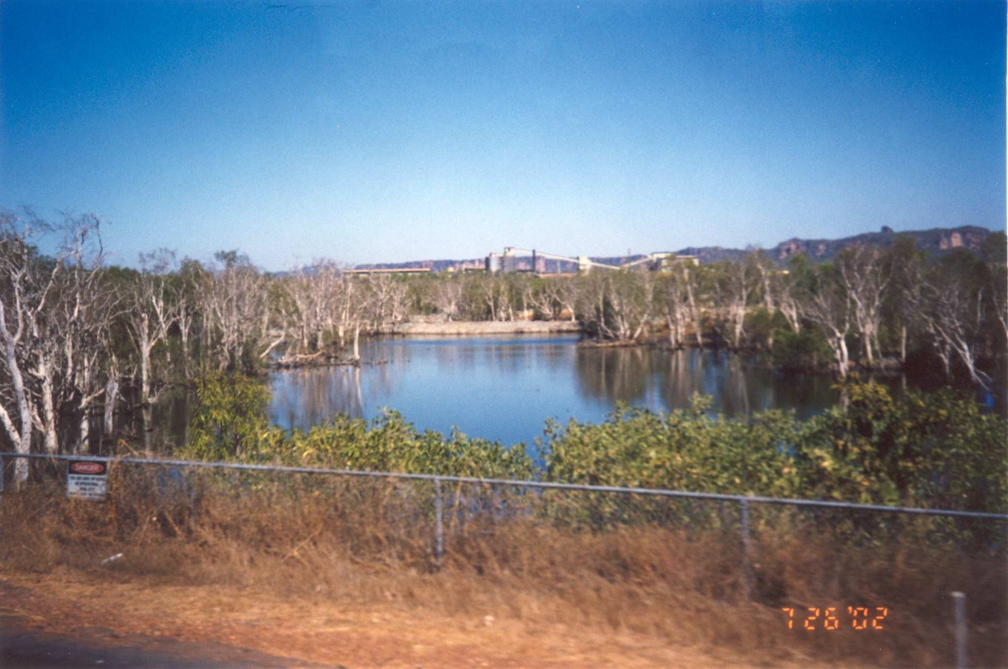 View of the Ranger Uranium Mine from the road in Kakadu National Parken